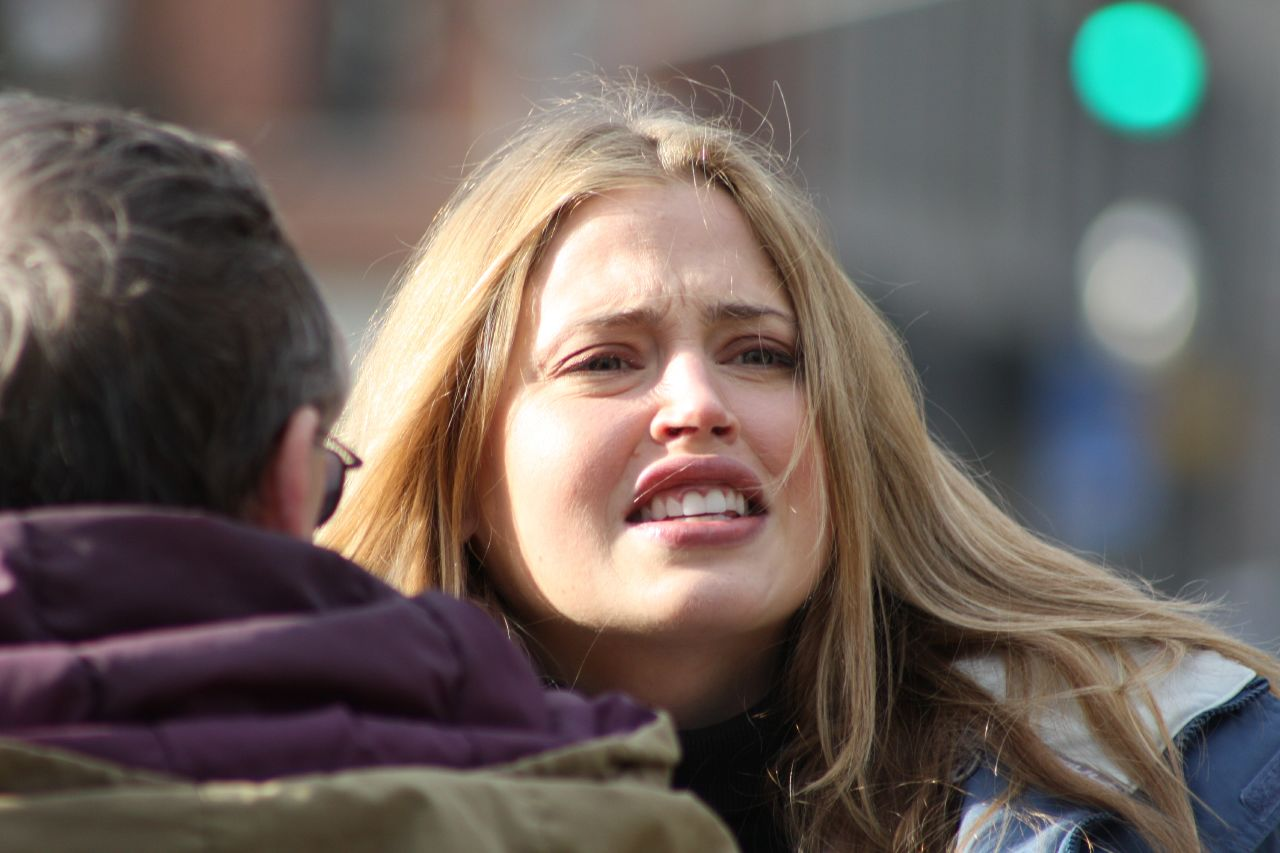 Estella Warren in Fredericton shooting movie "Blue Seduction".